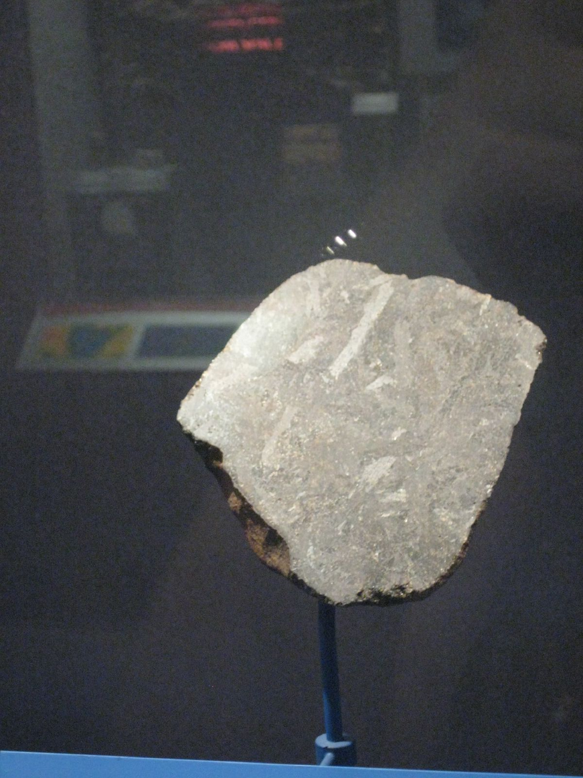 Shallowater meteorite. Achondrite (Aubrite). Found 1936, Lubbock County, Texas.